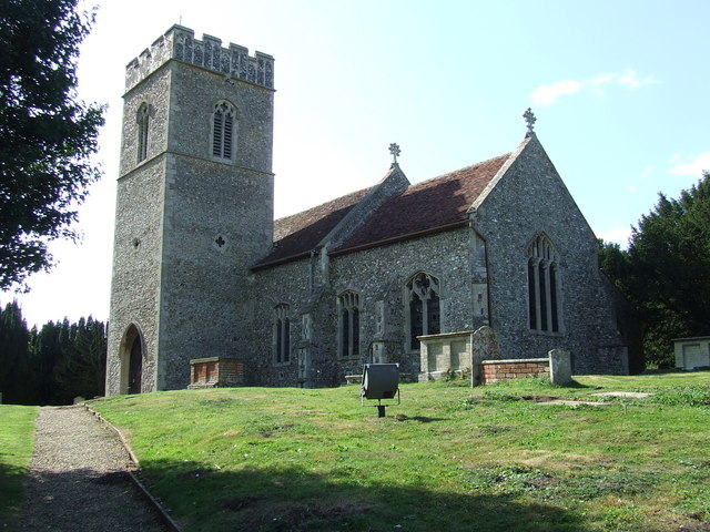 St Botolph's parish church, Burgh, Suffolk seen from the southeast